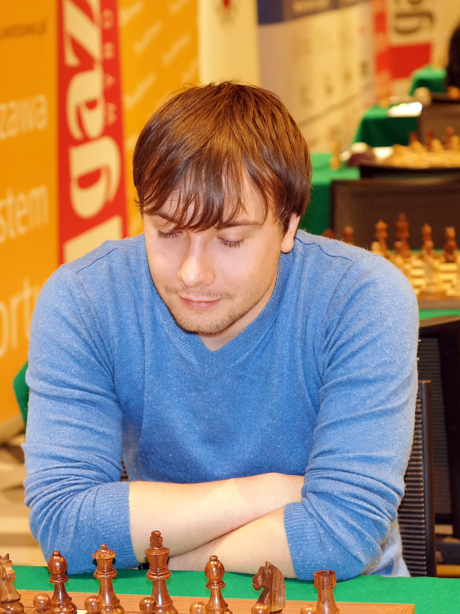 IM Marcel Kanarek, Polish Chess Championship, Warsaw 2014